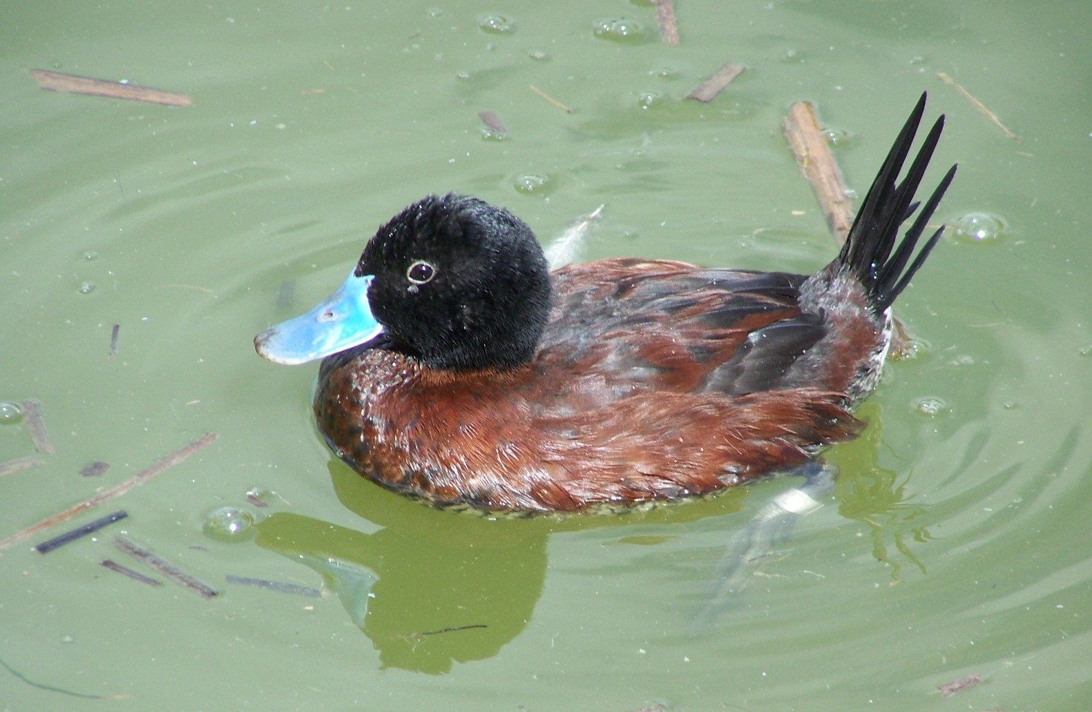 Andean Duck